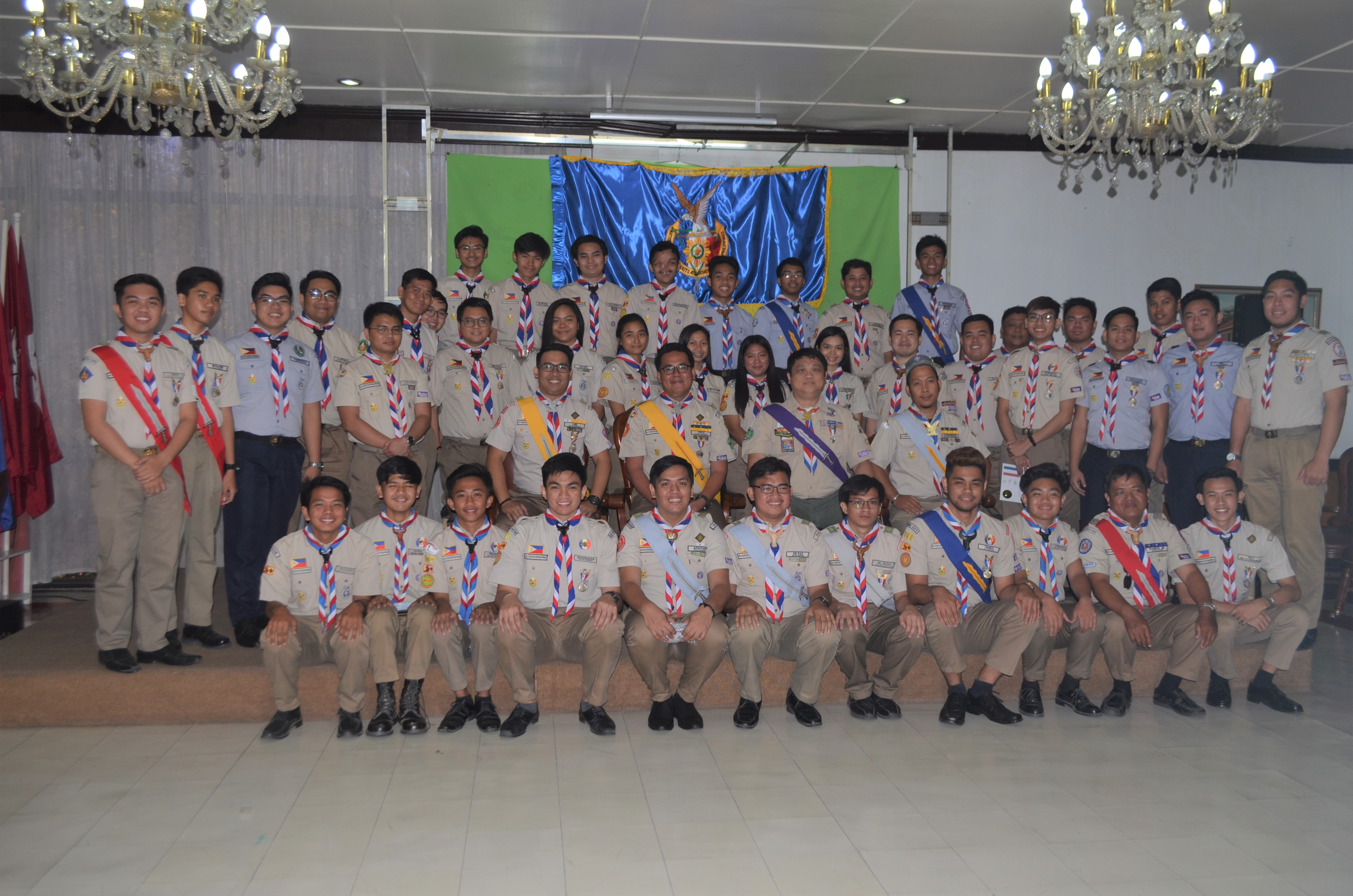 3rd Acceptance Rites